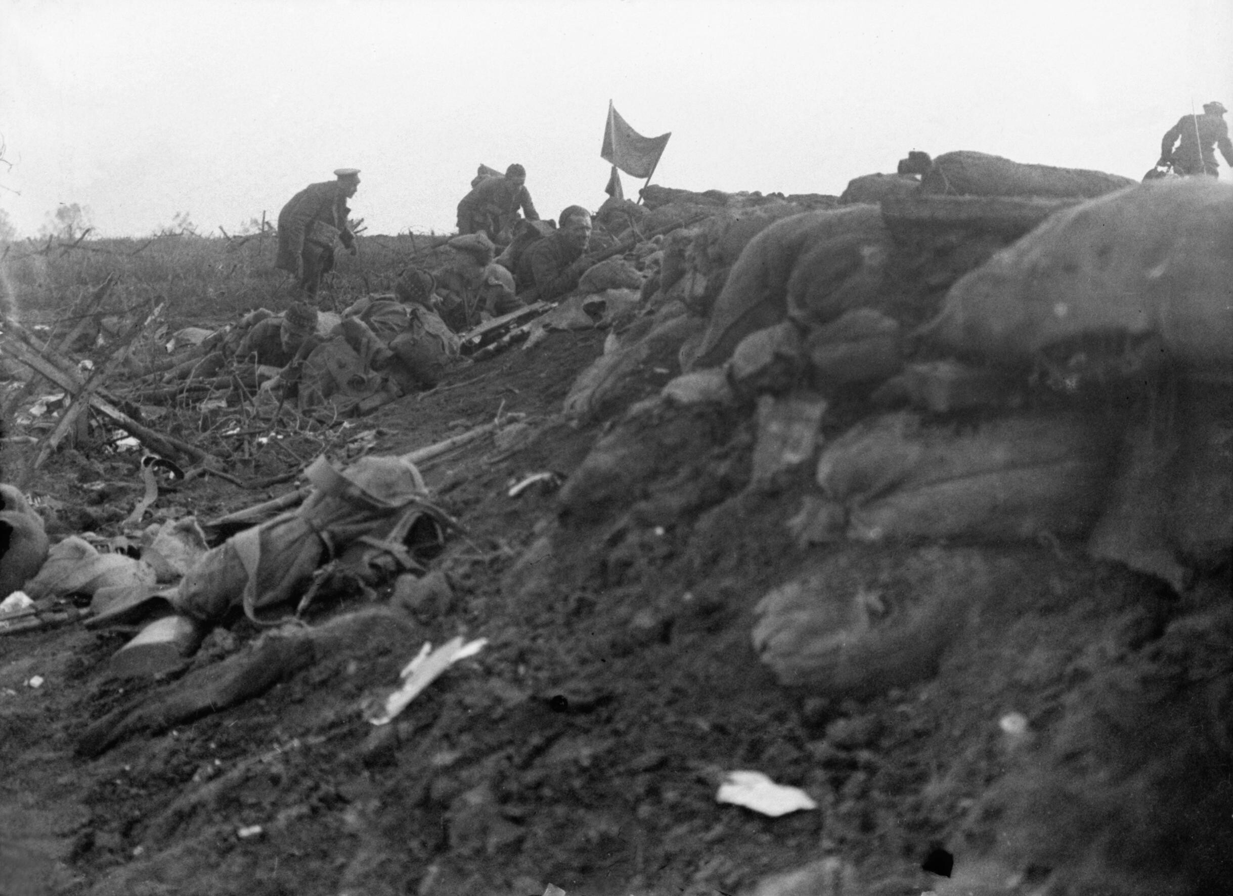 Taken near Hooge, a photo of the first attack on Bellewaarde Farm by the Liverpool Scottish, 6 am, 16 June 1915. See also Image:Liverpool Scottish Bellewaarde Farm 16 June 1915 Q 49751.jpg